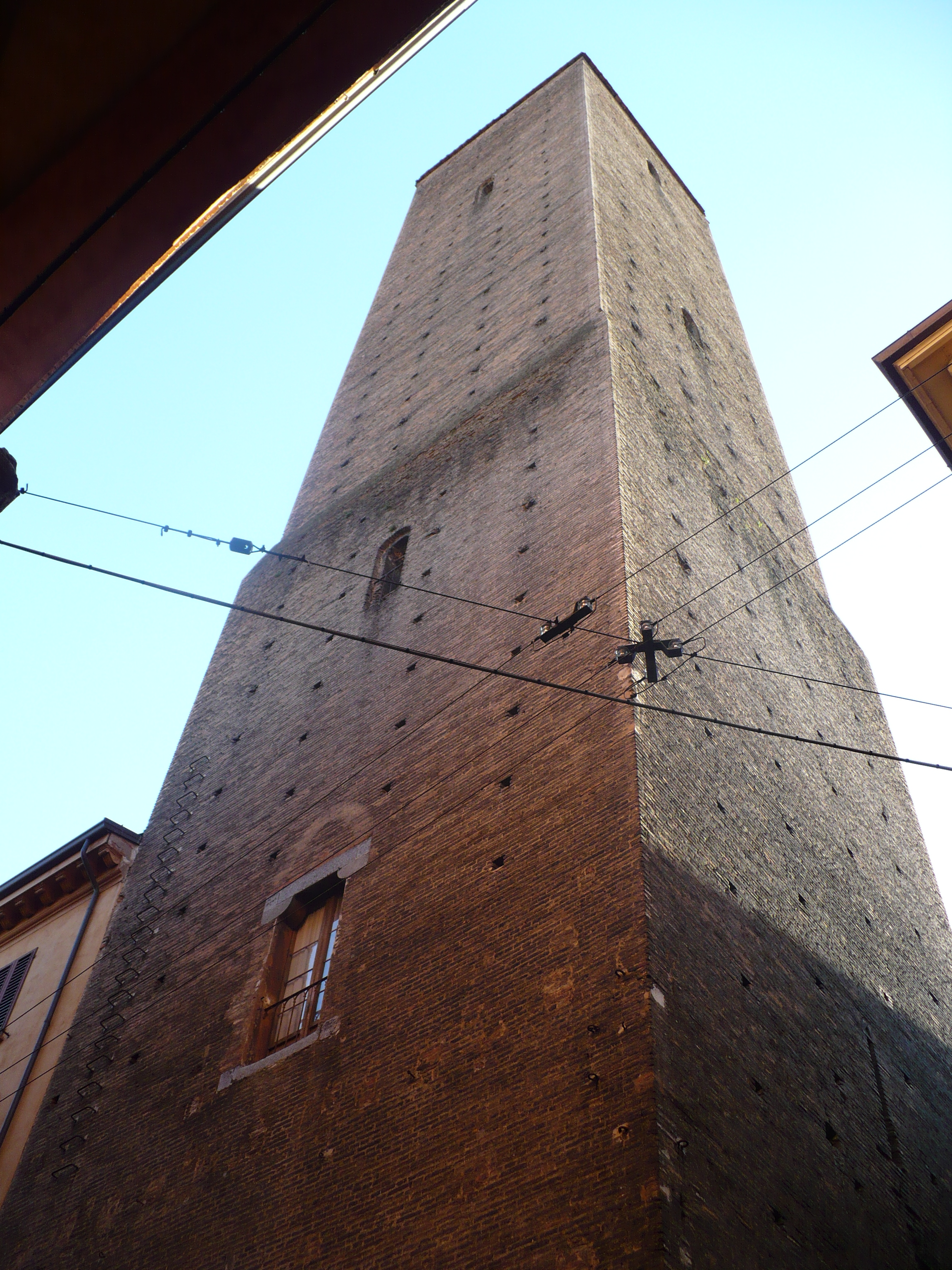 Image of Azzoguidi's Tower